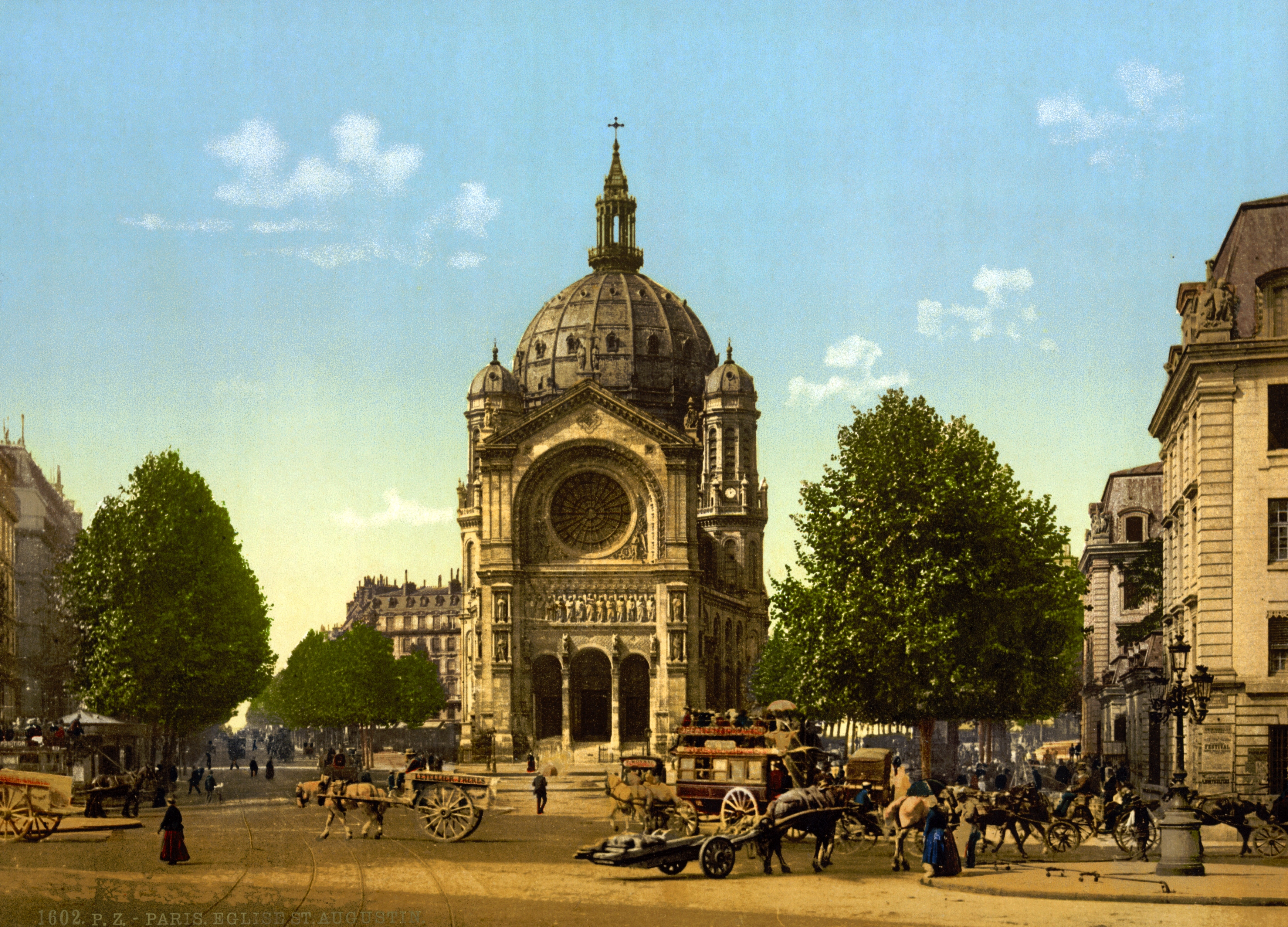 St. Augustine Church, Paris, France (Église Saint-Augustin de Paris). 1 photomechanical print : photochrom, color.